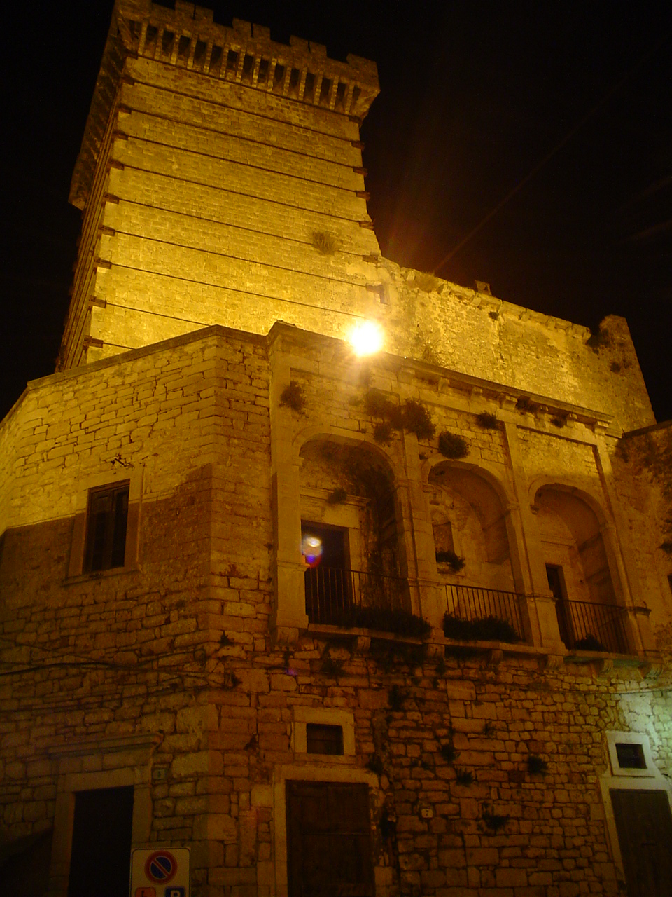 Ceglie Messapica (Brindisi, Italy), tower of the castle